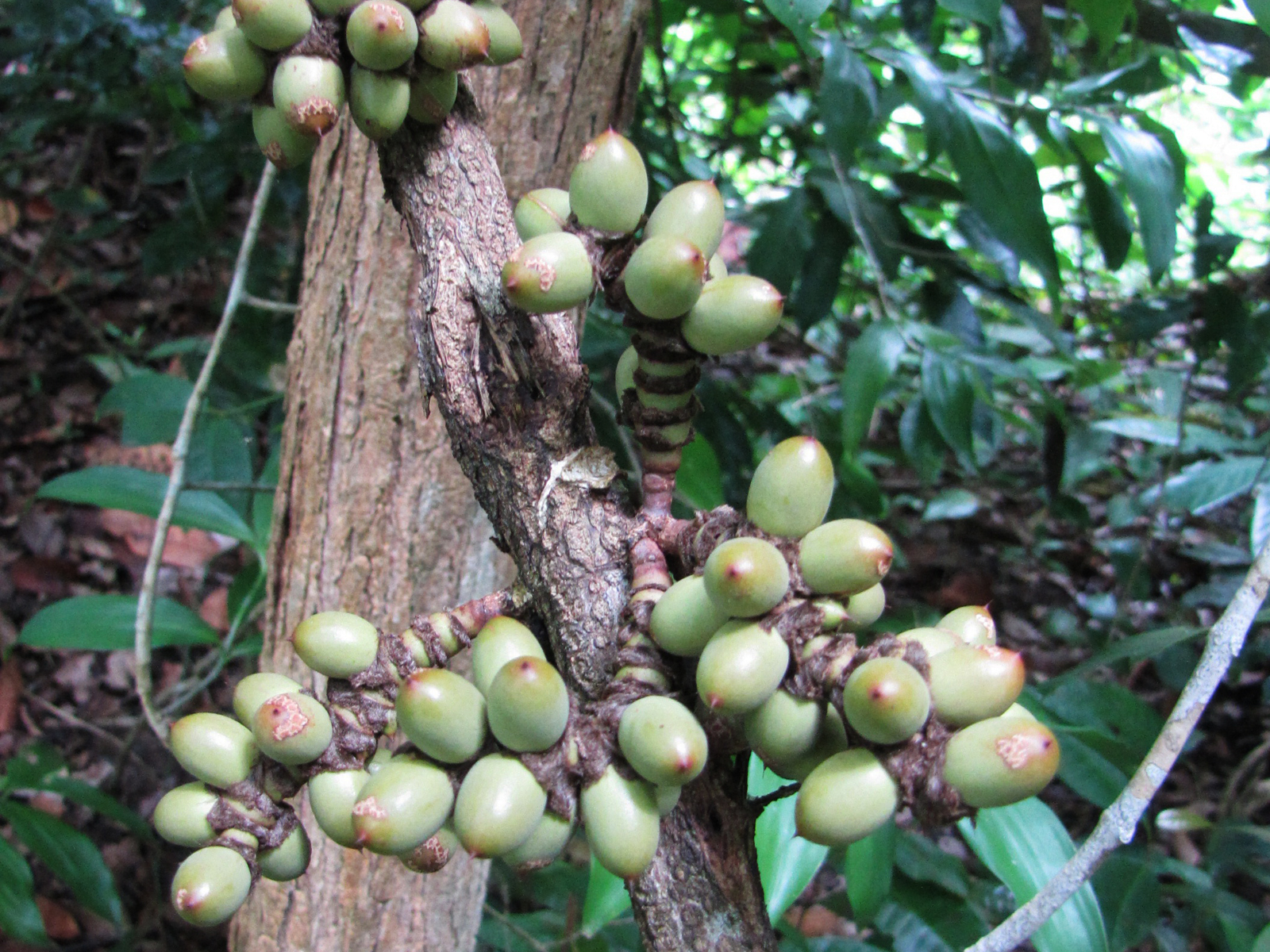 Gnetum macrostachyum in Bulon Island, Southern Thailand